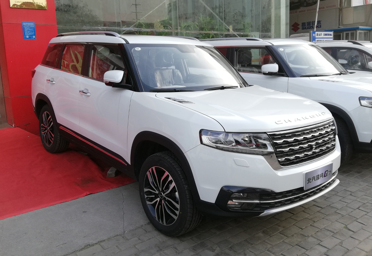 Changhe Q7 photographed in Zhengzhou, Henan province, China.